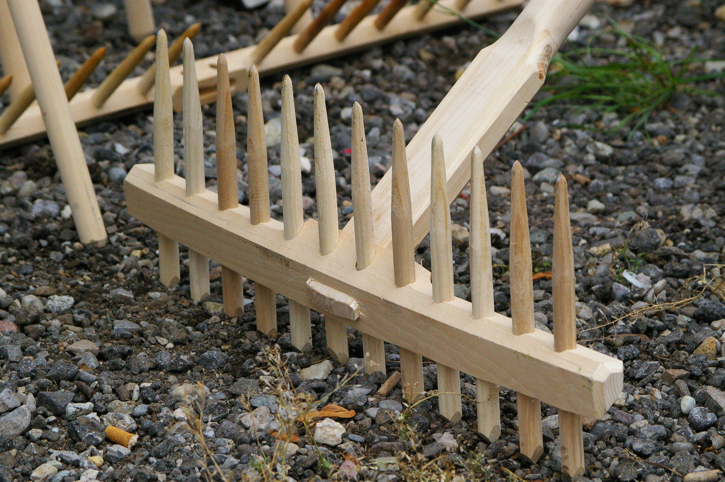 A special rake (wooden hand rake)